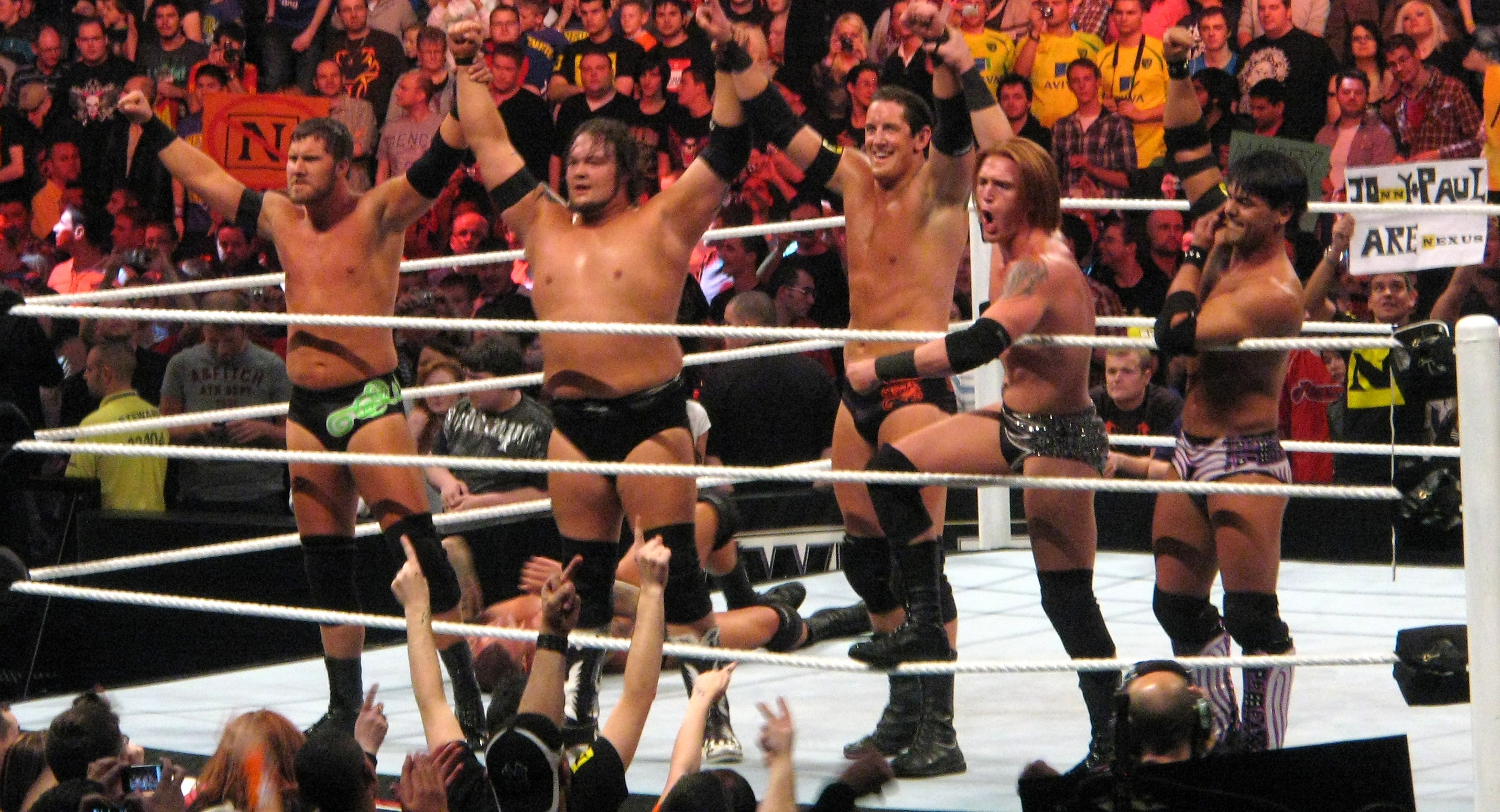 The Nexus (from left to right): Michael McGillicutty, Husky Harris, Wade Barrett, Heath Slater, and Justin Gabriel.